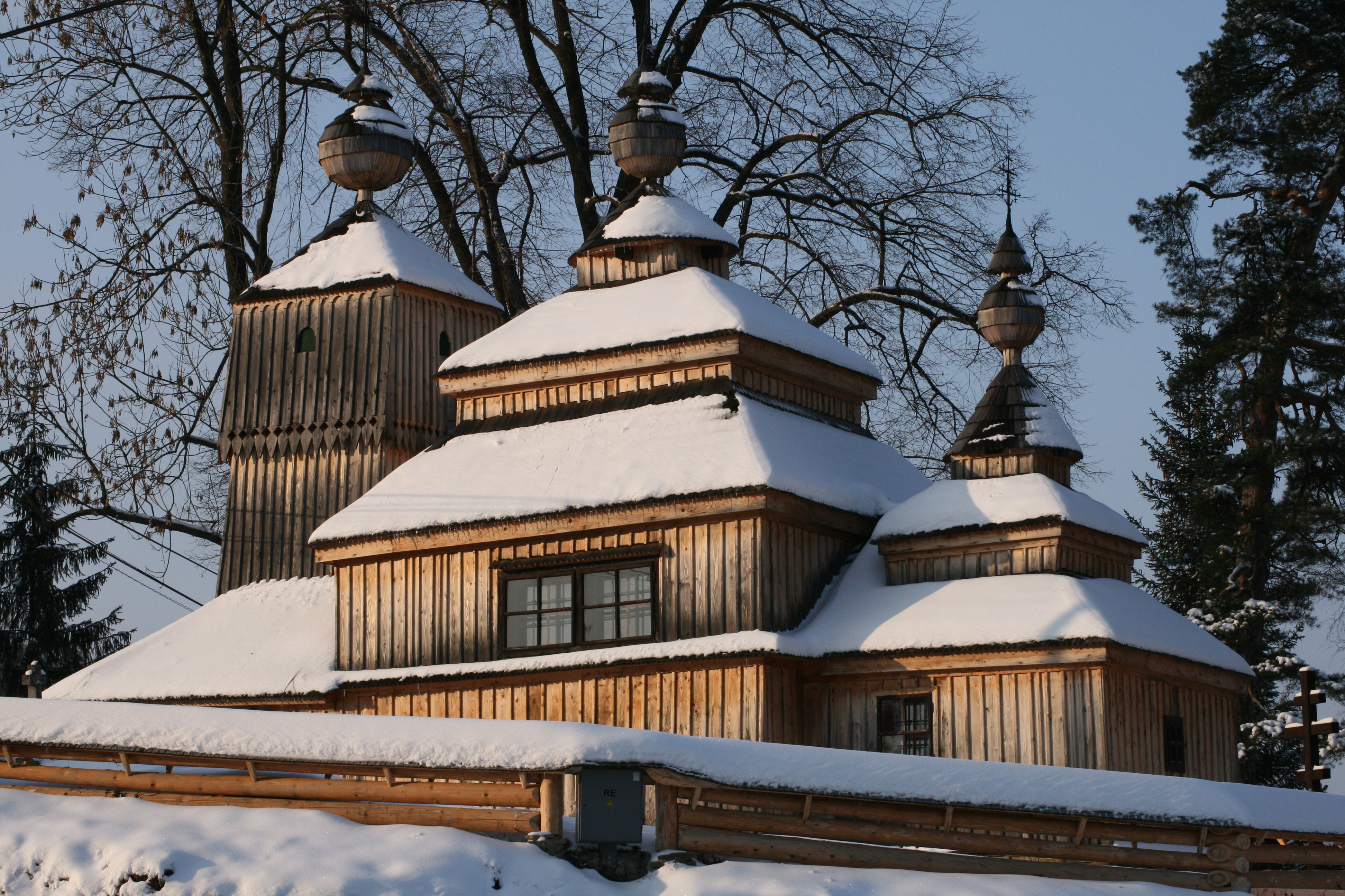 Bodružal articular and protected wooden church in a winter time